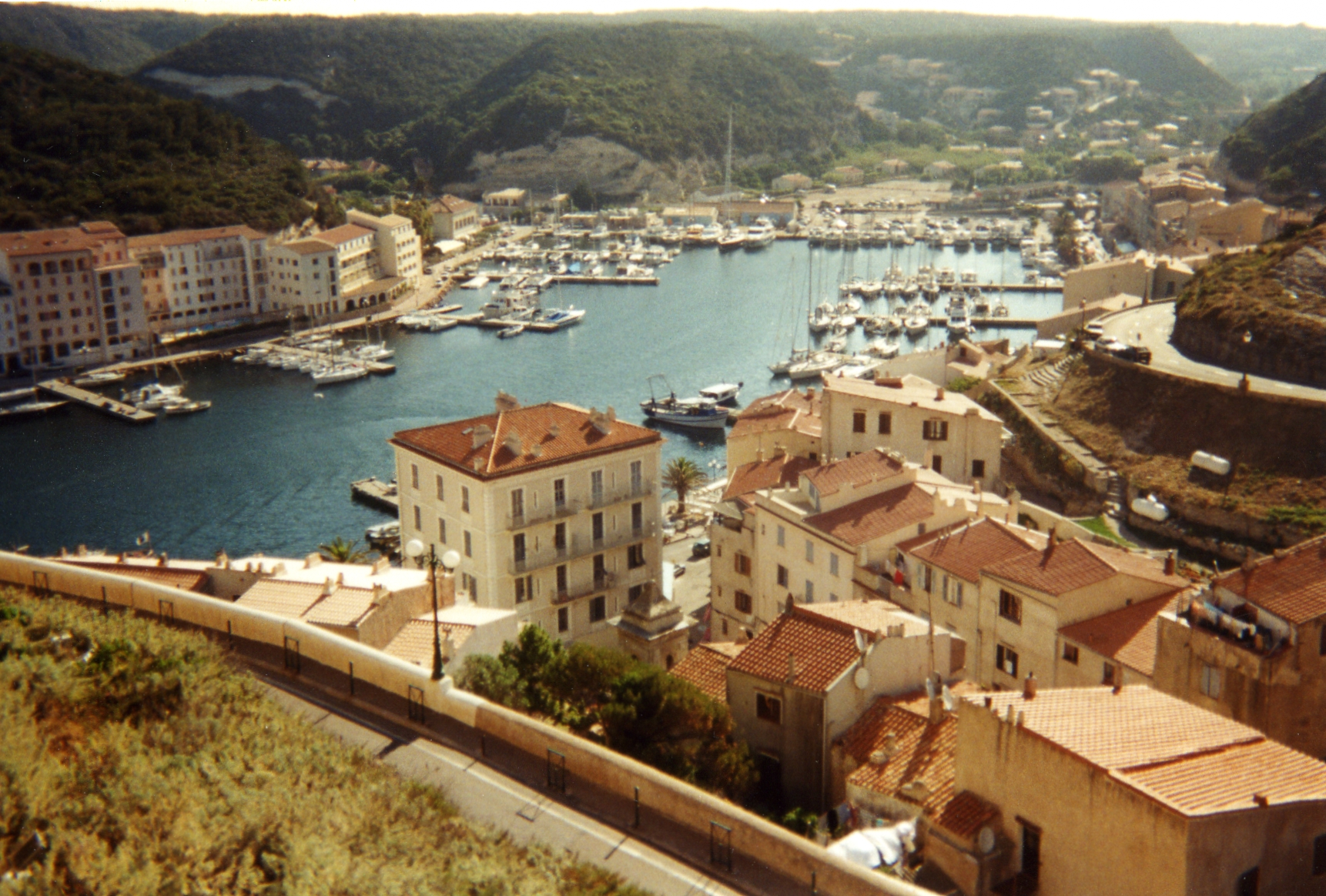 View of Bonifacio, Corsica